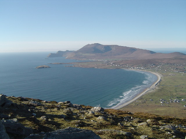 Landscape of Achill Panoramic from Meeunaun cliffs, overlooking the very large Trawmore Strand and, after a little hill, the village of Keel with its beach and inlet. In the left, the suggestive and far Keem bay, closed by Moytoge Head. The mountain beside the last bay is Croaghaun, that in the northern side falls into the Ocean: for this reason is considered European highest sea cliff. Moytoge isn't last point of the island, being Achill Head (not so much clear in the photo).